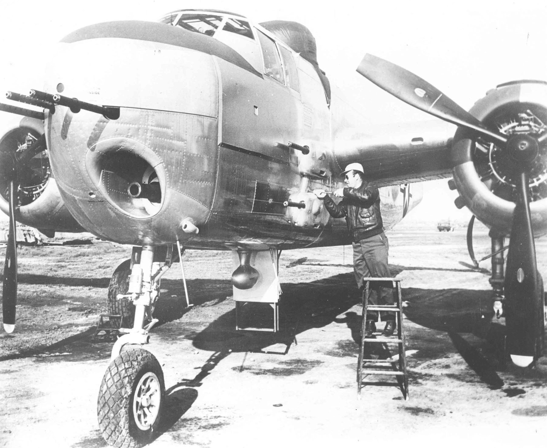 B-25H with 4x0.50 & 1x75mm